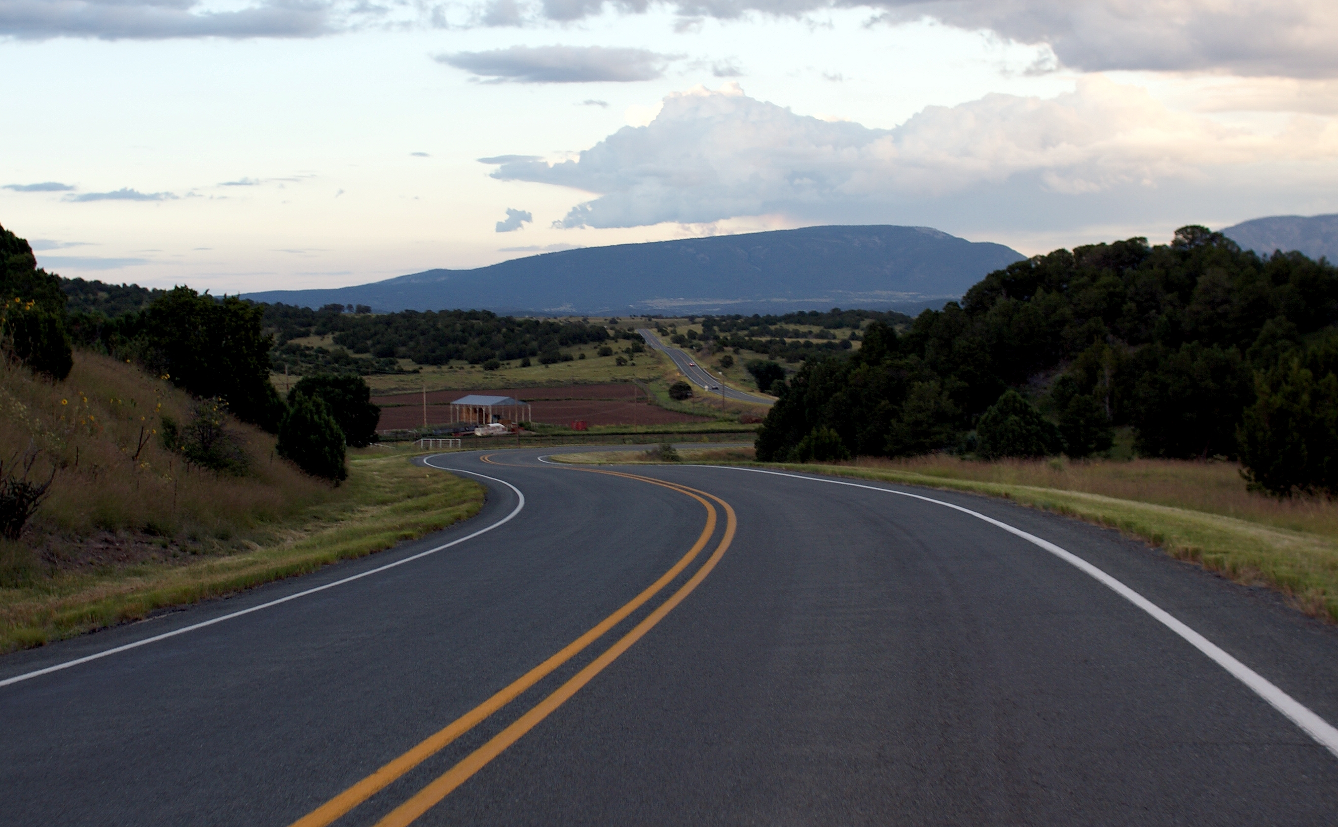 NM 48 (and it's northwestward counterpart, NM 37) are incredibly scenic drives heading through mountain meadows. Coming down from Ruidoso towards Capitan, the Capitan Mountain Range (part of the Lincoln National Forest) is always stands in view.